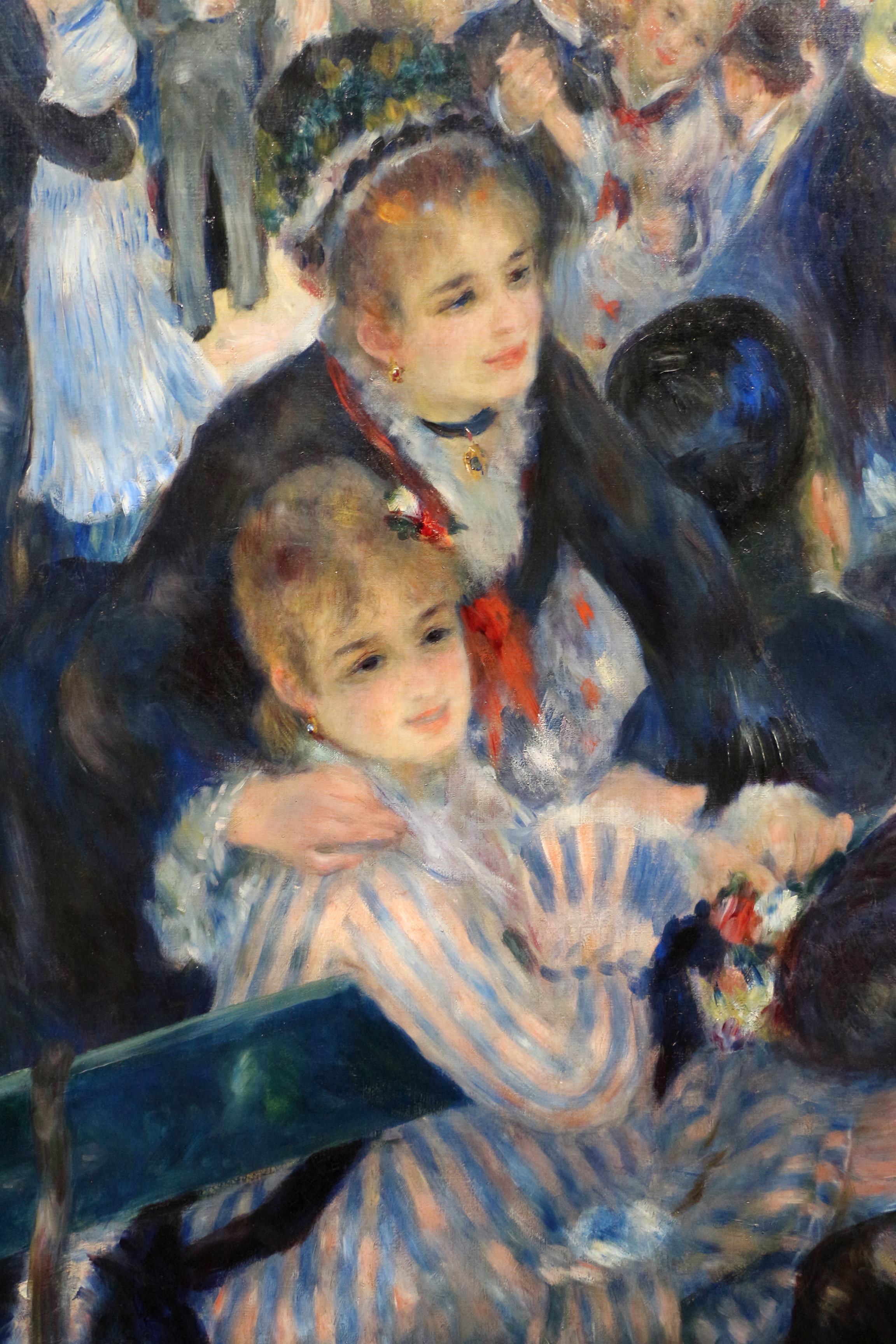 Bal du moulin de la Galette by Renoir